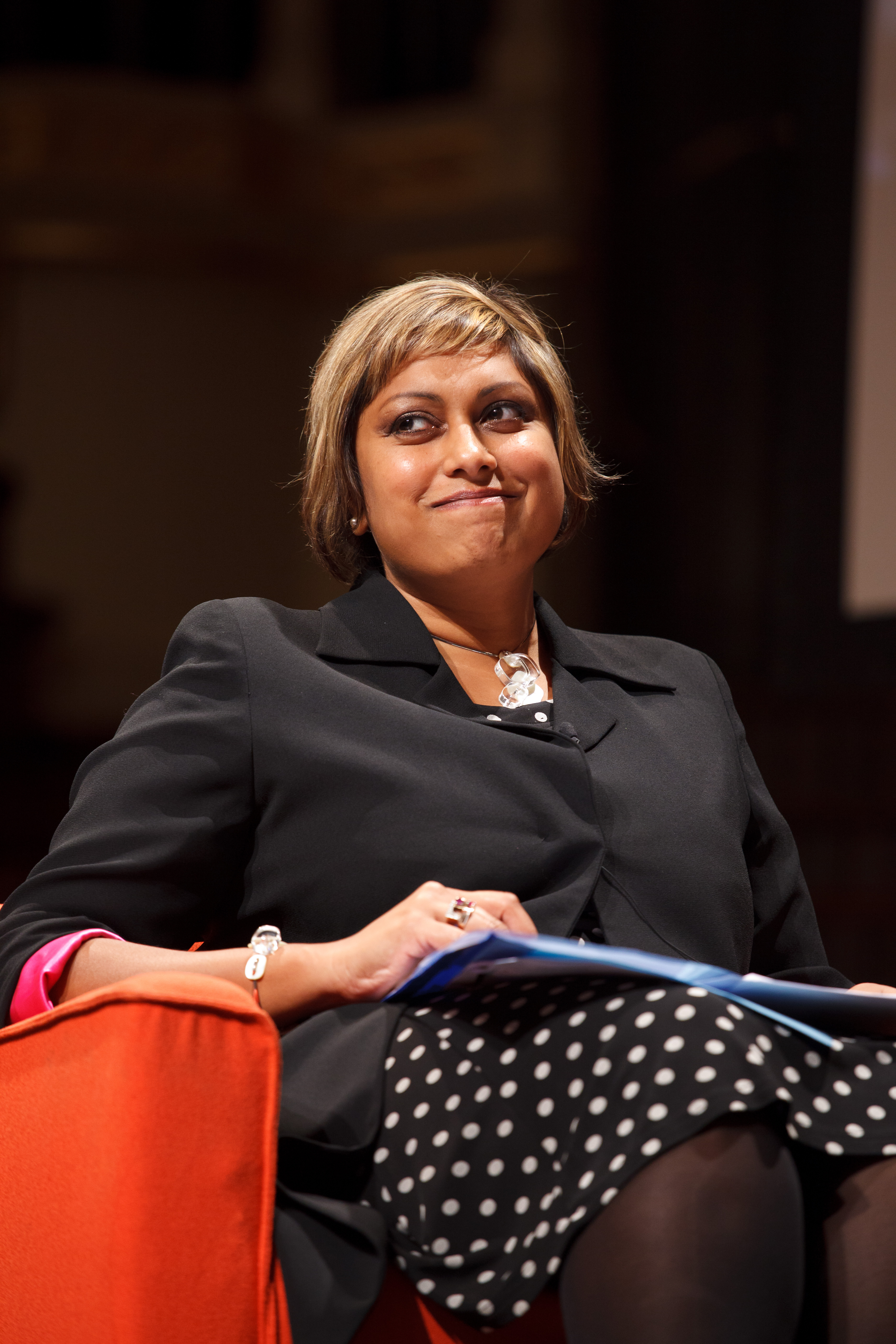 Indira Naidoo hosting Human Rights 2011